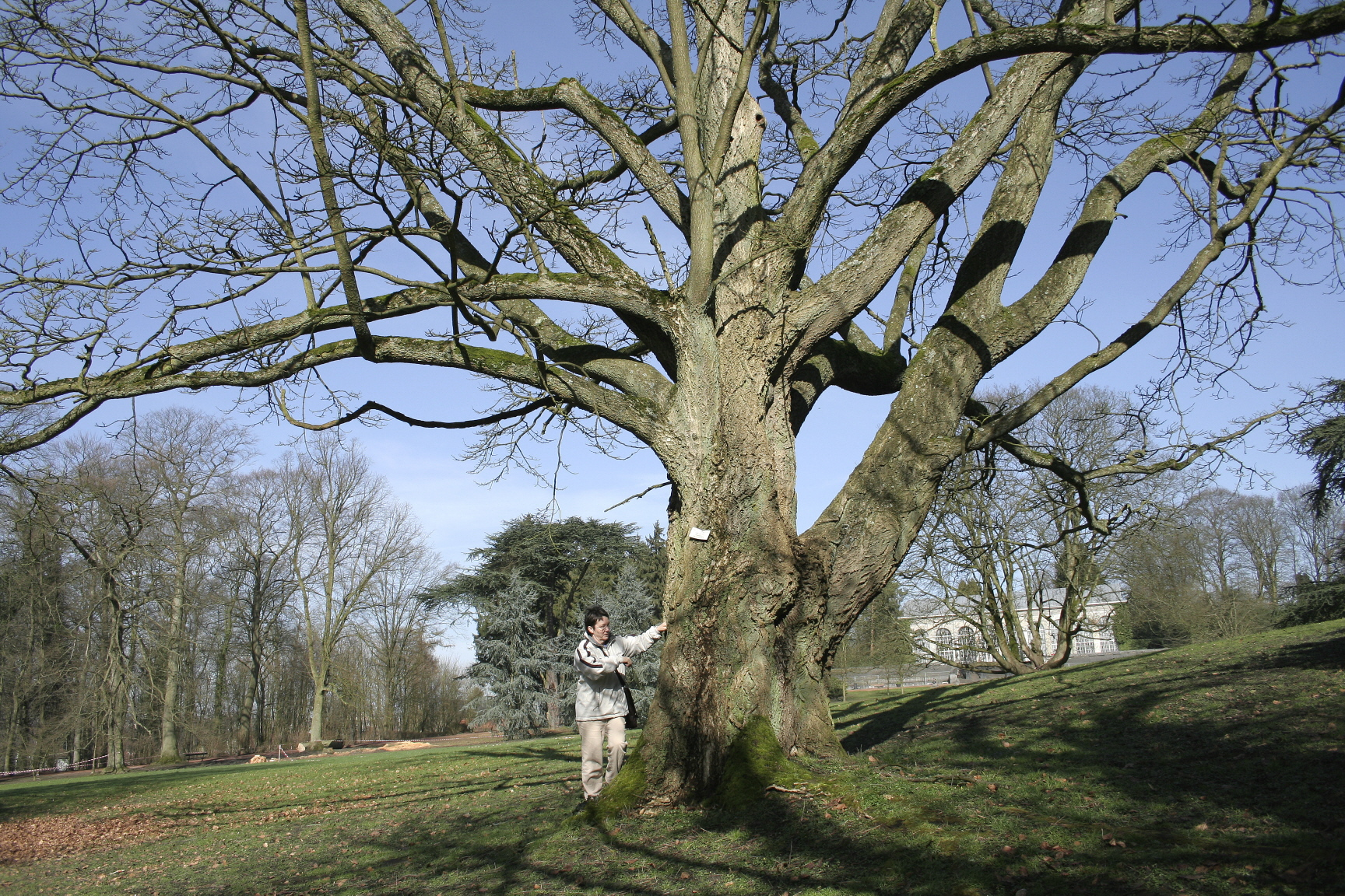 Amur Corktree